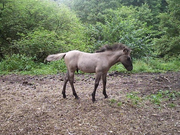 A konik horse in the Stobnica Research Station of the Farm Academy of Poznan, Poland